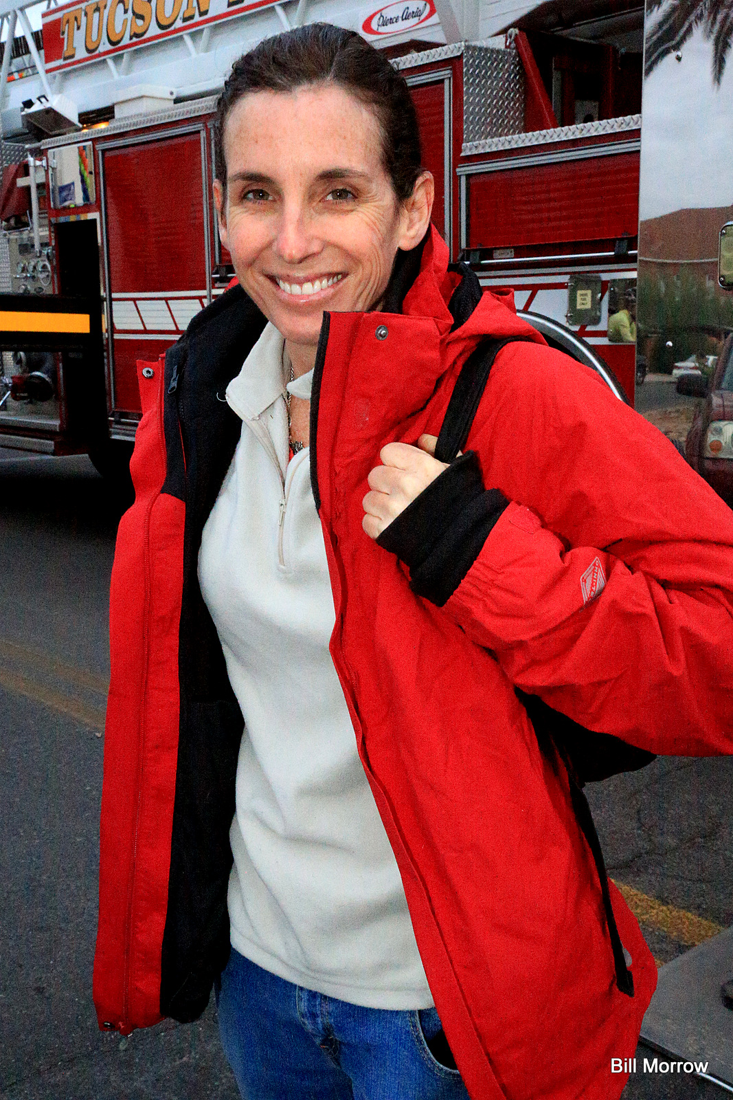 Martha McSally at El Tour de Tucson prior to conceding the Second Congressional district race to Ron Barber. The tabulation ran 50/50 for more than a week following the election, prompting the County Recorders office to work overtime to insure that the final figure was correct. Tucson Fire Department's Ladder One, raised McSally and other invited guests high over the starting line at El Tour de Tucson, where McSalley sang the National Anthem. This photo was taken as she alighted from Ladder One.